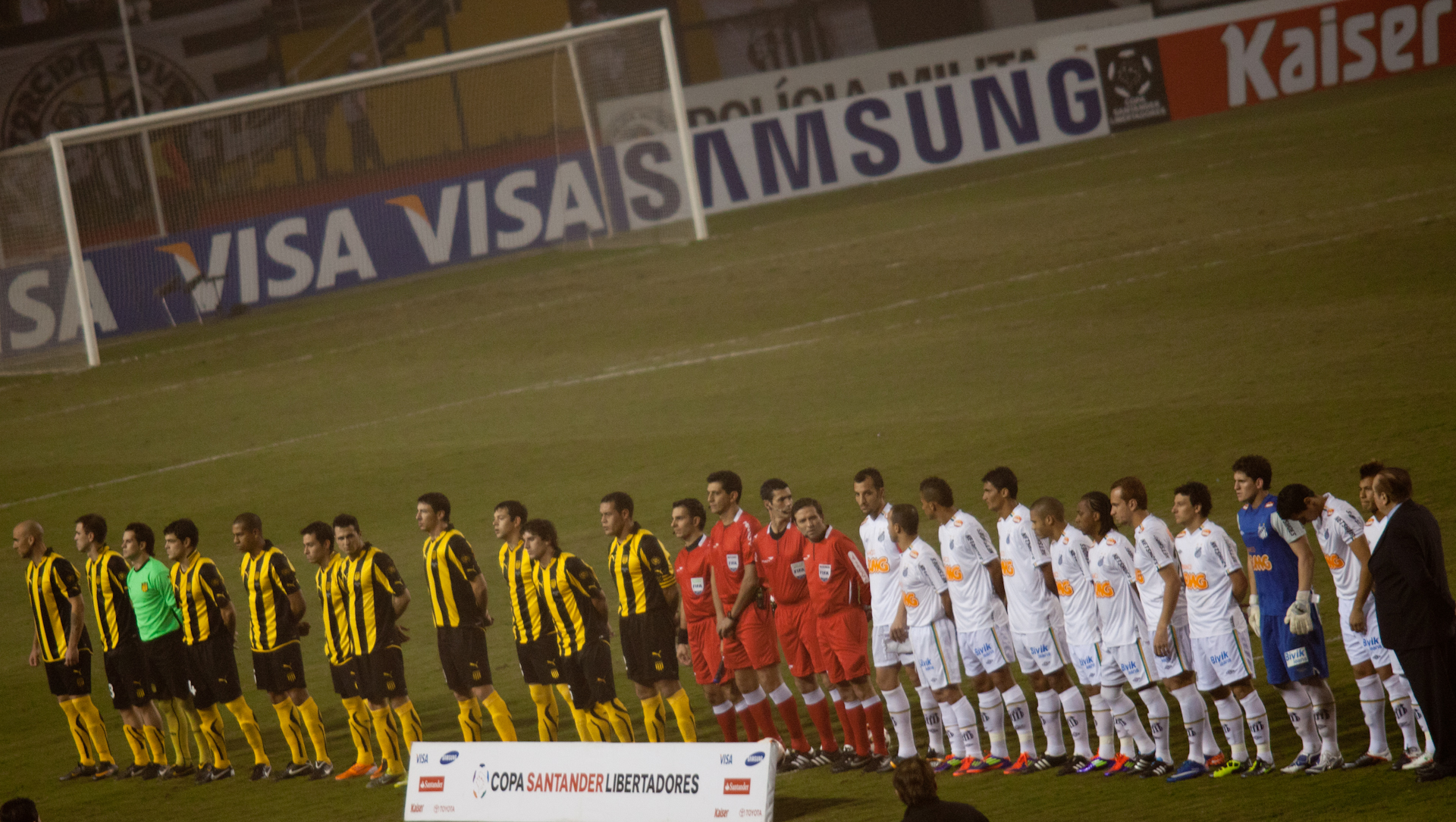 Peñarol and Santos players during national anthems.